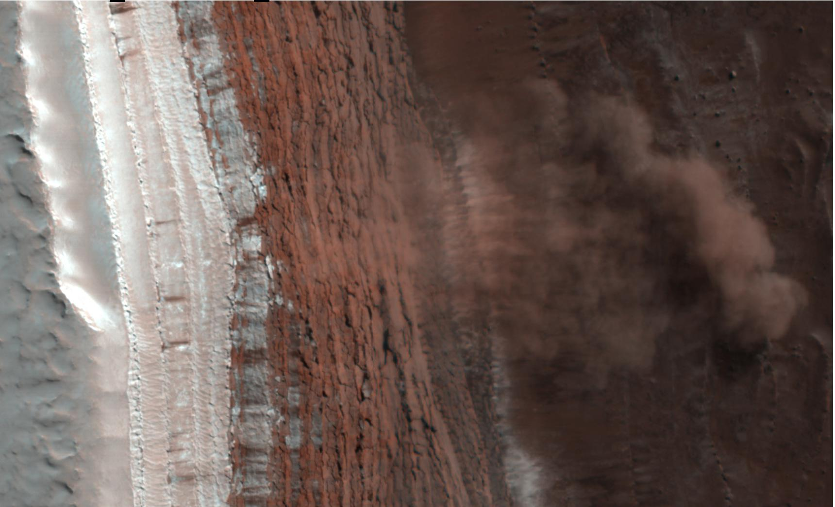 Avalanches on Mars.